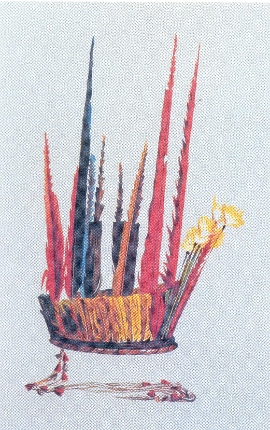 Kali'na headdress.